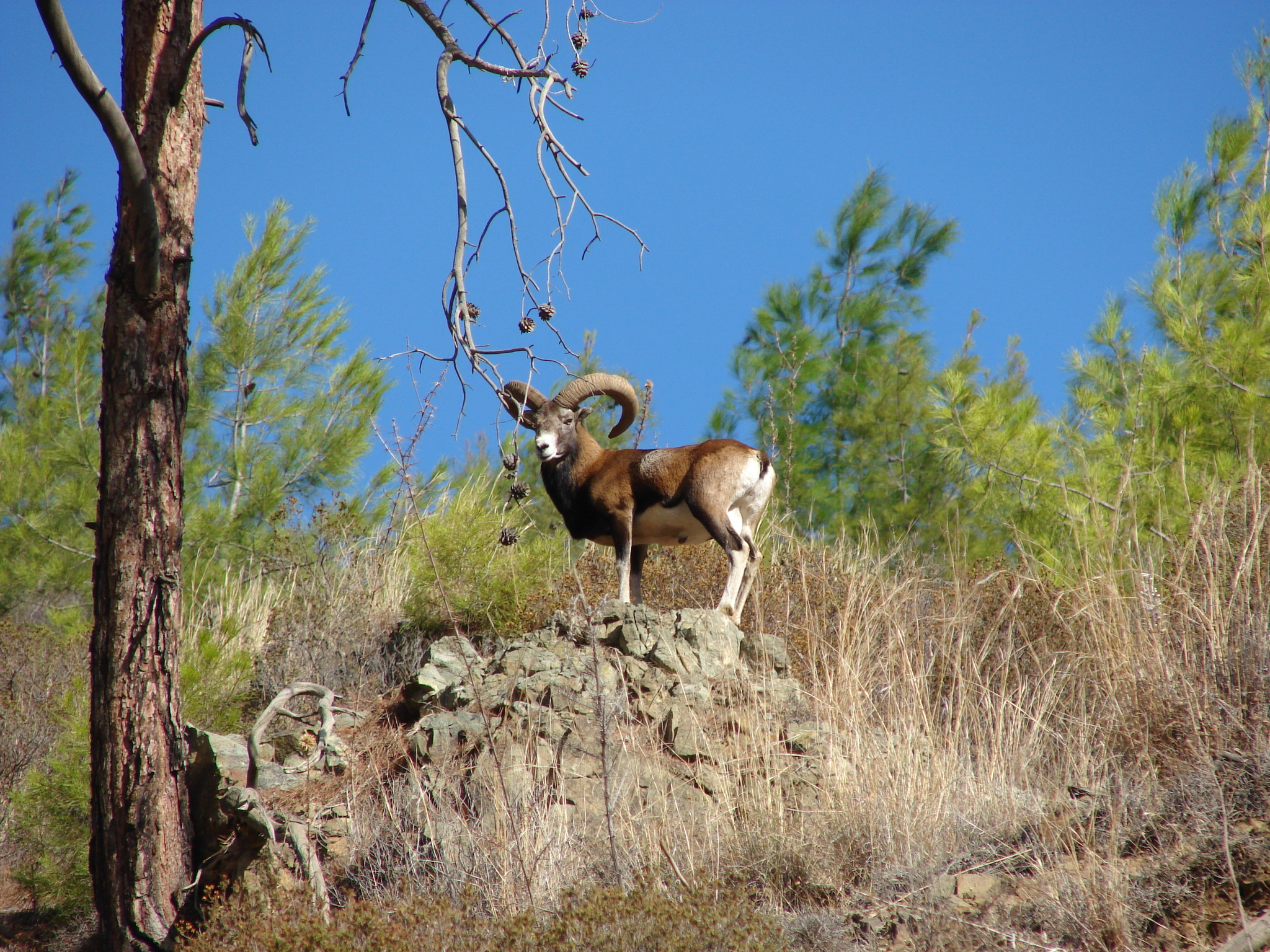 Photo of a male wild Cyprus mouflon